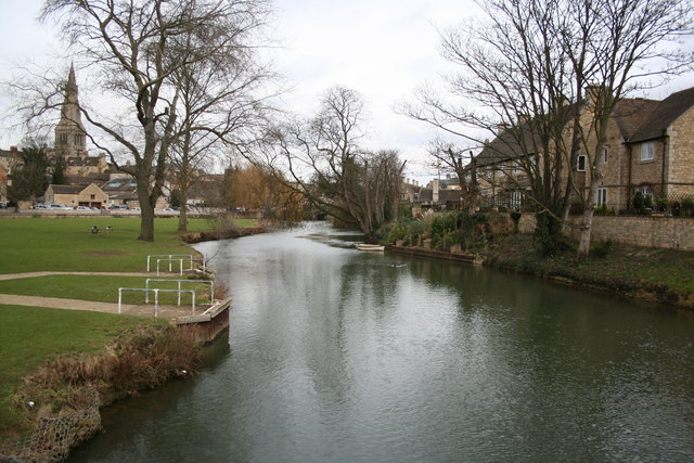 River Welland. Looking east, to the right Northamptonshire, to the left Lincolnshire